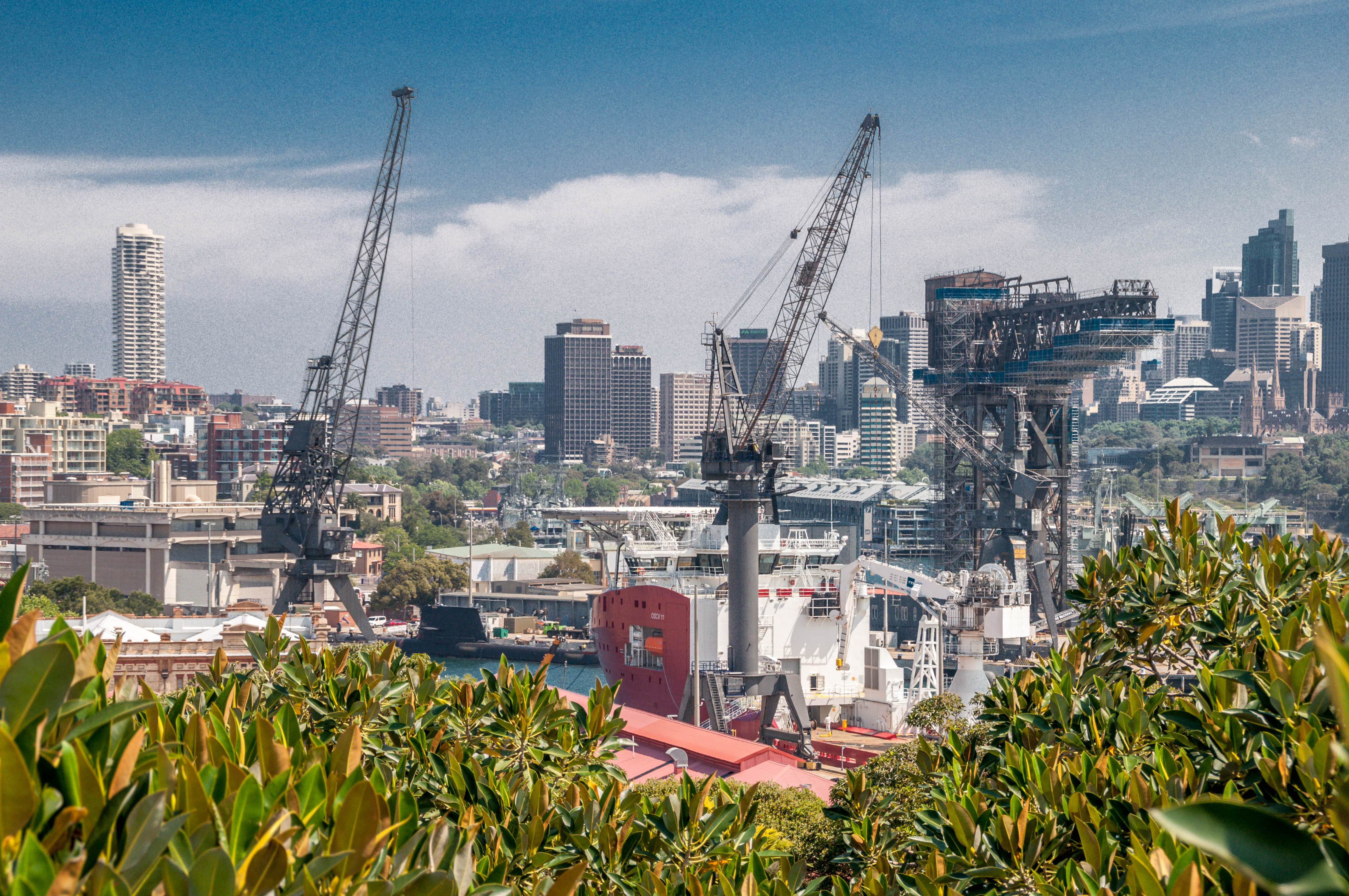 Fleet Base East from highest point on Garden Island, New South Wales